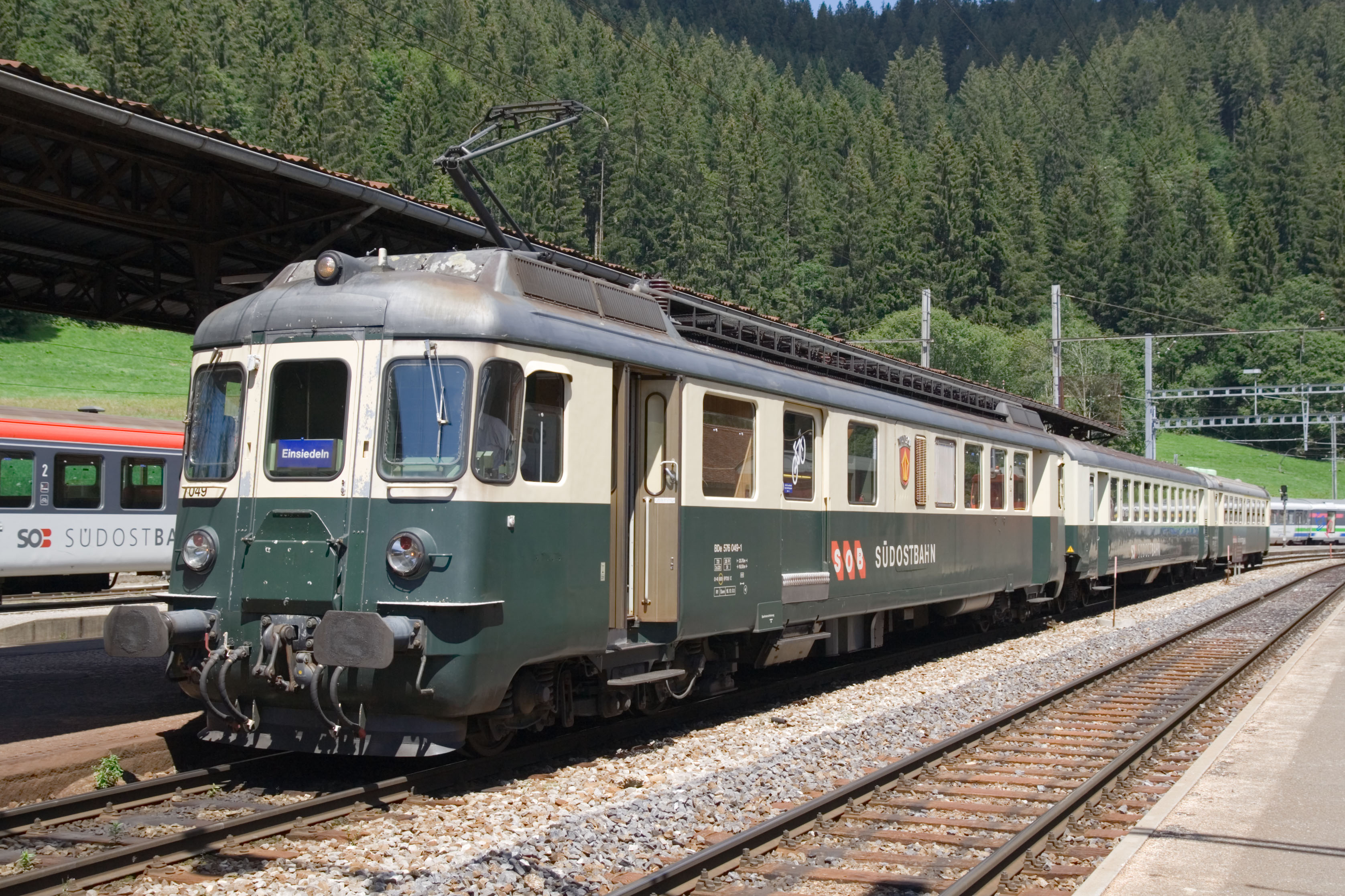 SOB BDe 4/4 (576 049-1) multiple unit at Biberbrugg